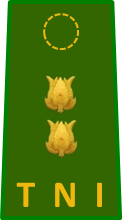 Lieutenant Colonel rank insignia that used on daily uniforms of Indonesian Army